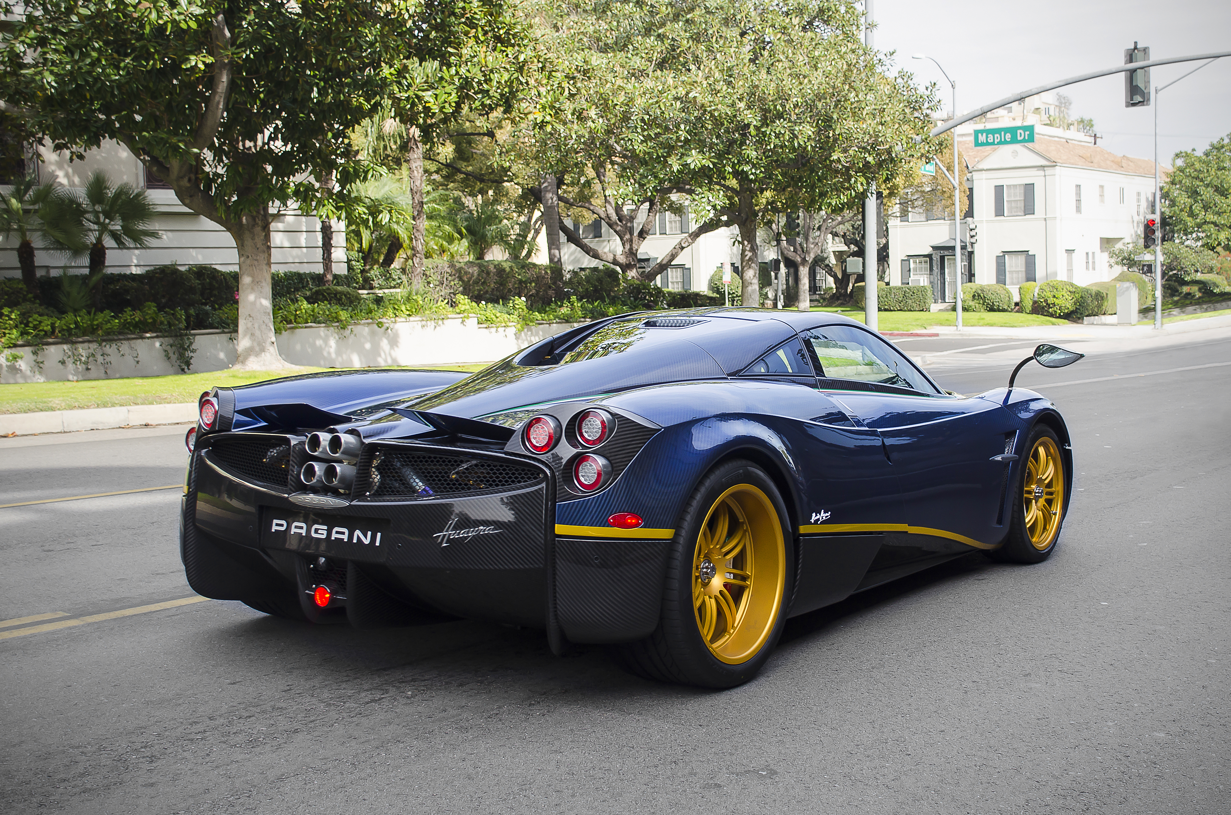 Pagani Huayra 730S in Los Angeles, California.